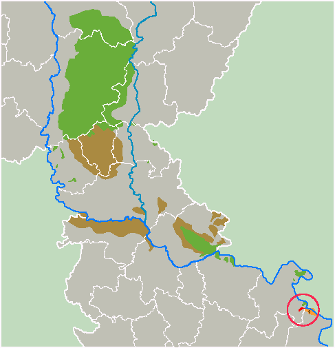 LEGEND: Green - Sands, Red - Selected Sand, Brown - Loess. Српски (ћирилица): Мапа је због потребе приказивања садржаја мала и није у потпуности прецизна. Употребљени извори су педолошке карте и мапе заштићених подручја Завода за заштиту природе, као и рад др Млађена Јовановића Пешчаре у Србији 2014, Природно-математички факултет Универзитета у Новом Саду.